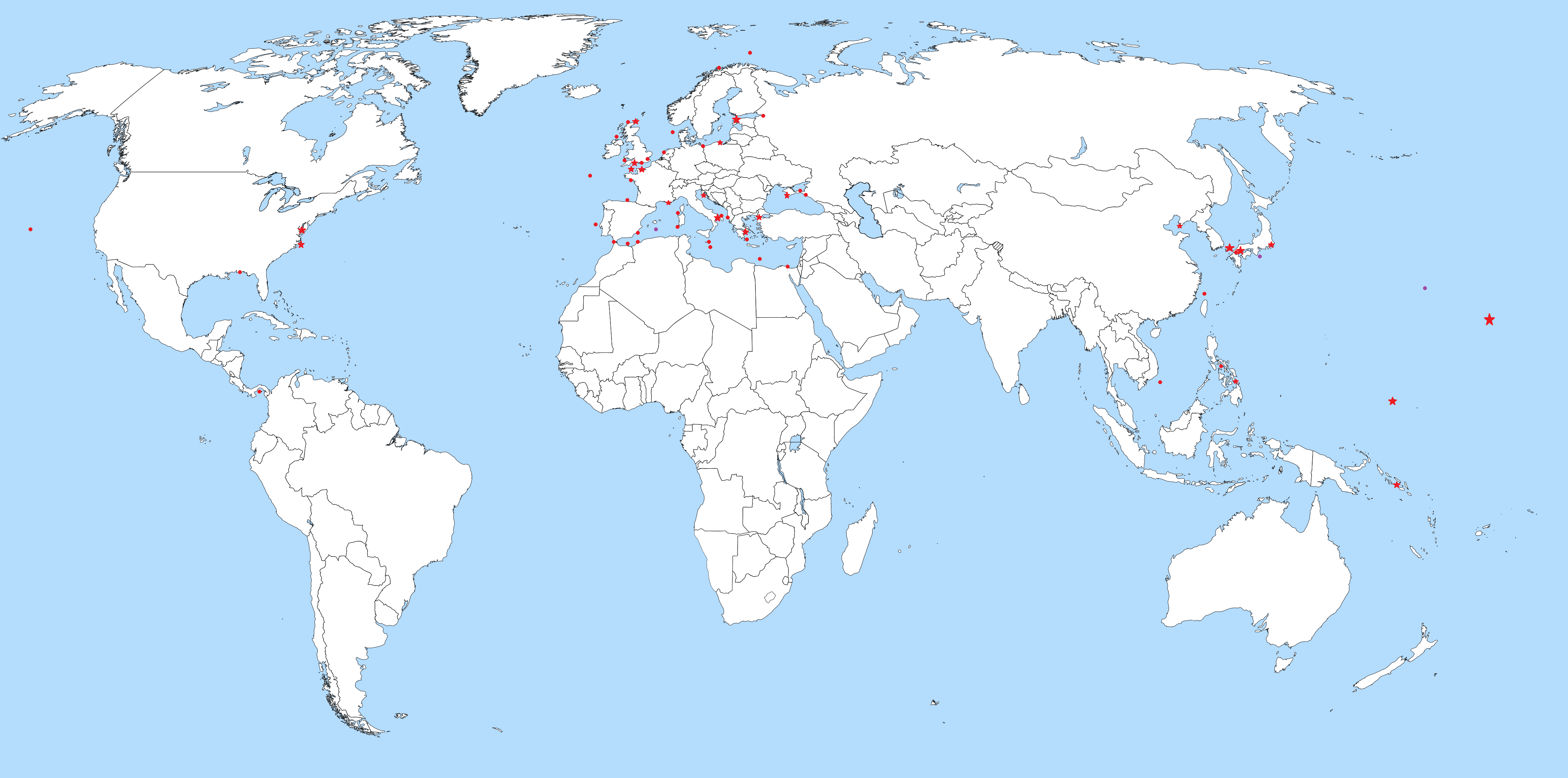 This is an improved map of sunken battleships, based on this one. Red symbols denotes battleships sunk for any reason. Purple dots denote battleships converted into aircraft carriers and thereafter sunk. Stars represent the (rough) location of more than one battleship.